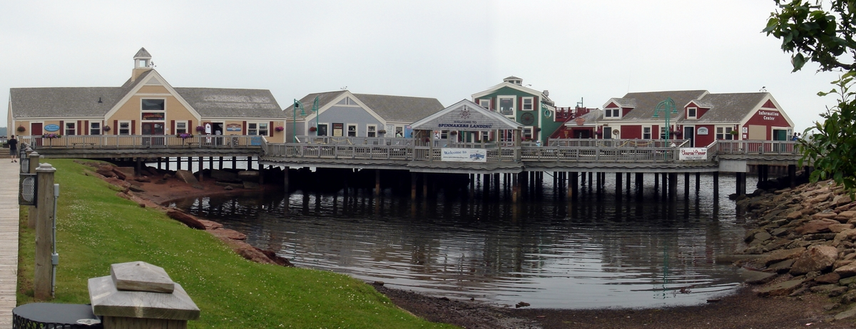 Spinnakers Landing in Summerside, Prince Edward Island, Canada